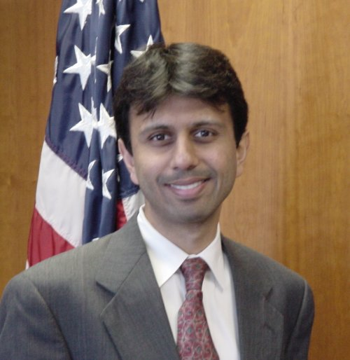 Bobby Jindal at Department of Health and Human Services. He served as Assistant Secretary for Planning and Evaluation.